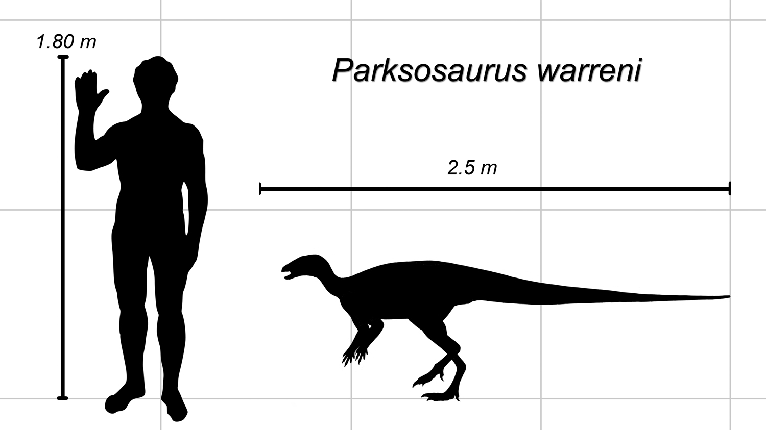 Parksosaurus scale diagram, • Parksosaurus scaled to ~2.5m (measured along the vertebral column). Silhouette based on File:Parksosaurus Steveoc86.jpg , which in turn is based proportionally on a skeletal reconstruction by Gregory S Paul in 'The Scientific American Book of Dinosaurs' (2000) • Human 1.80m (measured from the heel to top of the head). NOTE: I often update my images. If you want to have any of my images on a website, please (if possible) don’t host/save it to the website server. I’d prefer it if the image's Wikimedia URL is used. This means that if I update an image, it will be updated on the site as well. Thanks.